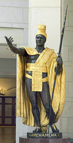 The National Statuary Hall Collection: Kamehameha I